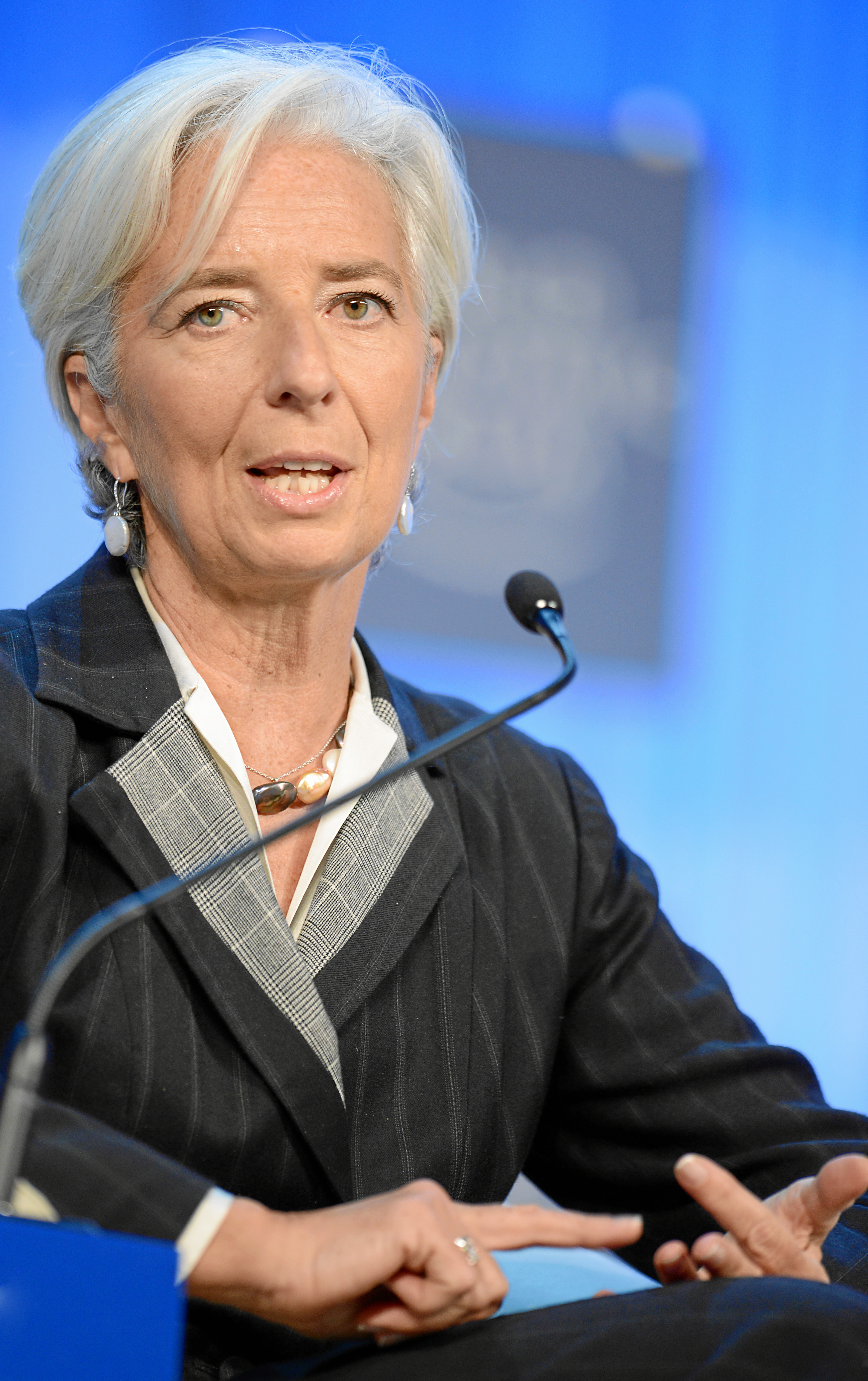 DAVOS/SWITZERLAND, 25JAN13 - Christine Lagarde, Managing Director, International Monetary Fund (IMF), Washington DC; World Economic Forum Foundation Board Member gestures during the session 'Women in Economic Decision-making' at the Annual Meeting 2013 of the World Economic Forum in Davos, Switzerland, January 25, 2013. . . Copyright by World Economic Forum. . Michael Wuertenberg